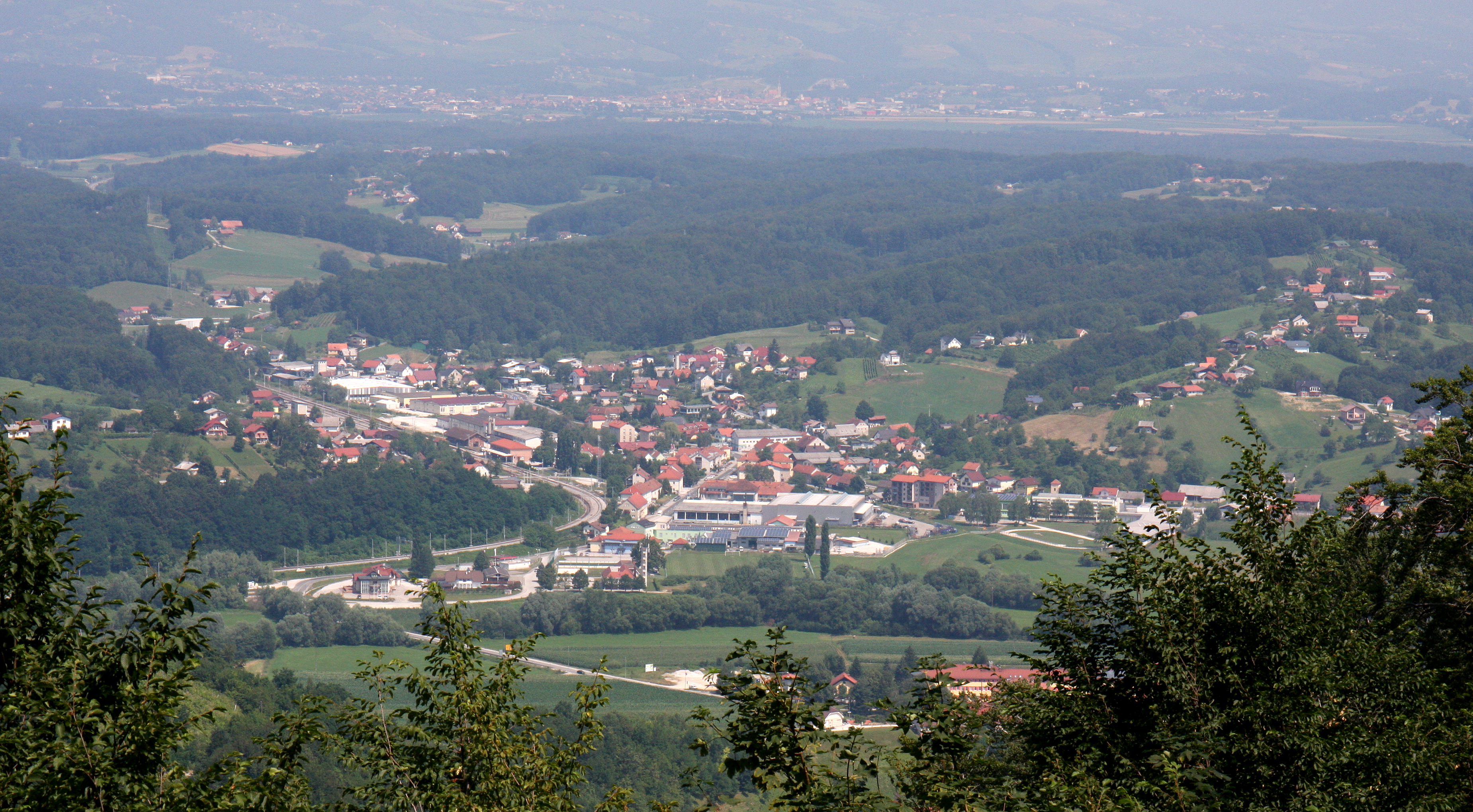 Poljčane, town in Slovenia, view from Mt. Boč.